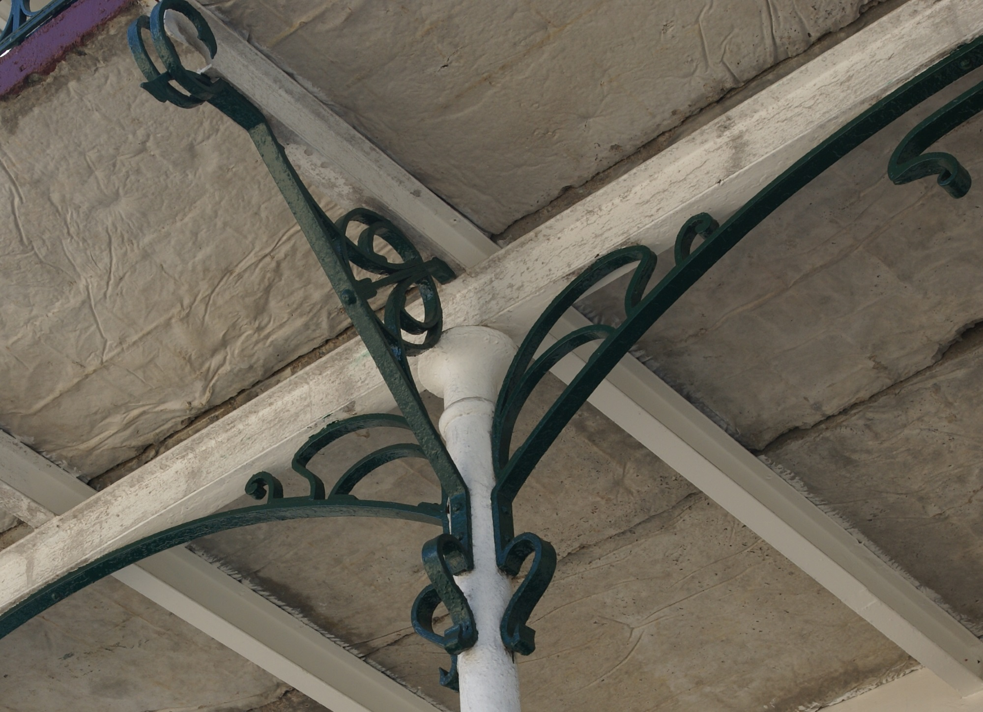 Kromme Elleboogstraat 9, Paramaribo, Surinam. Detail of balcony.